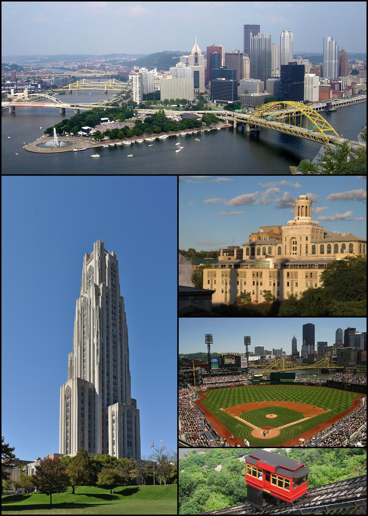 Montage of Pittsburgh images. From top to bottom left to right: Pittsburgh skyline Cathedral of Learning, at University of Pittsburgh campus Carnegie Mellon University PNC Park Duquesne Incline